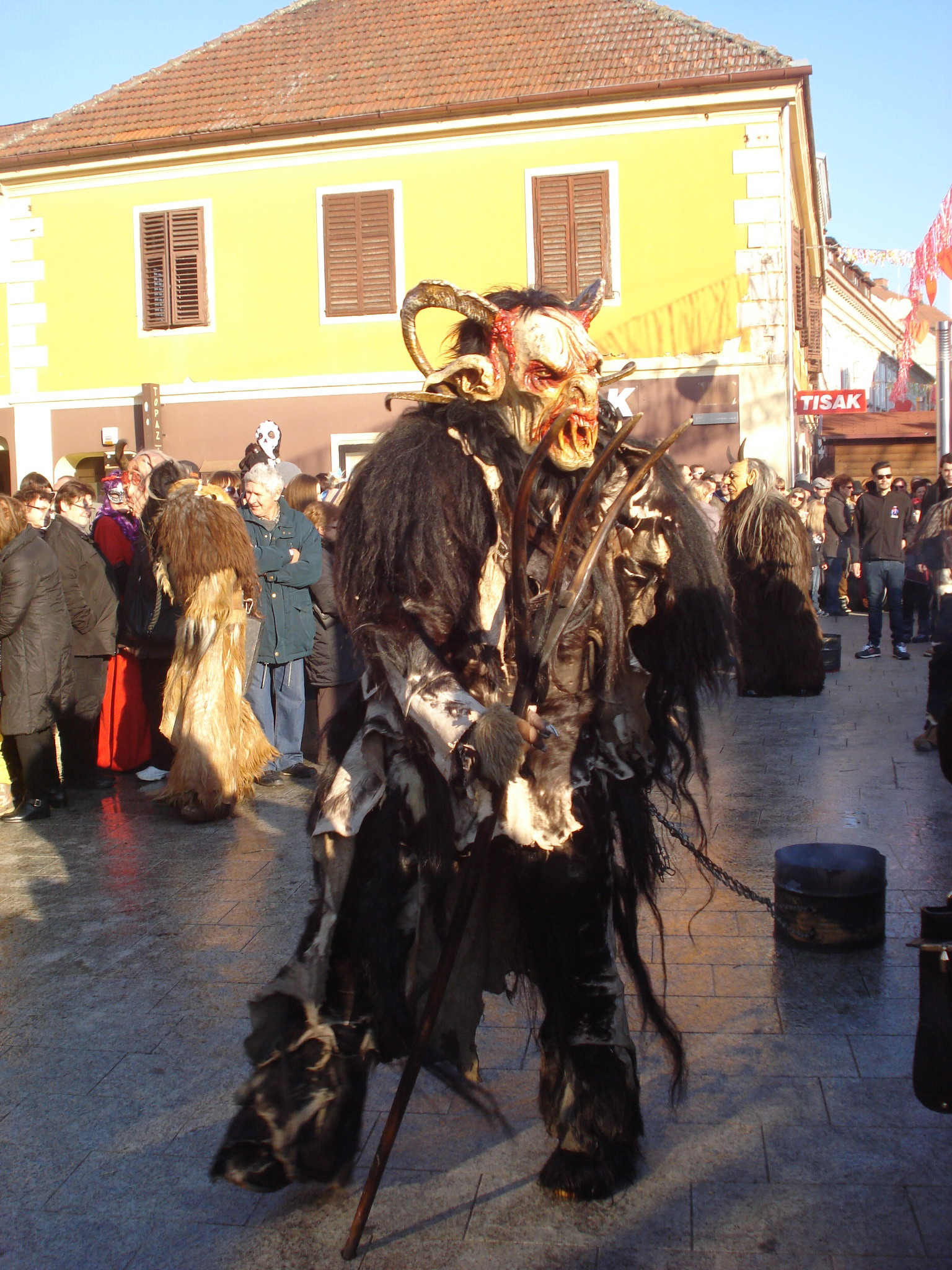 Medjimurje Carnival 2015 (Croatia) - Krampus of Sveti Martin na Muri village